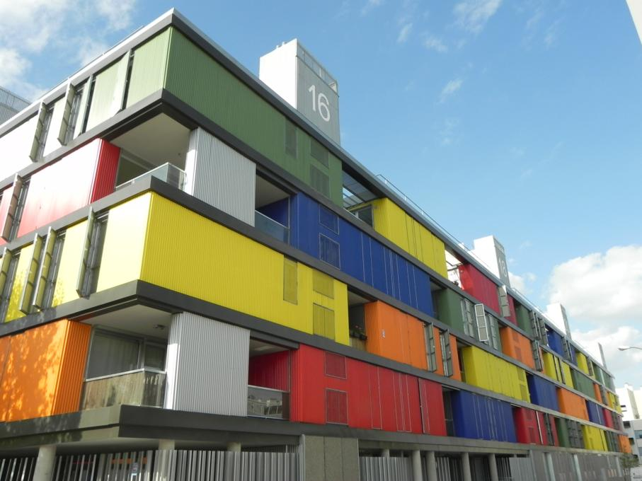 South-east façade of Carabanchel 17 building in Madrid (Spain).